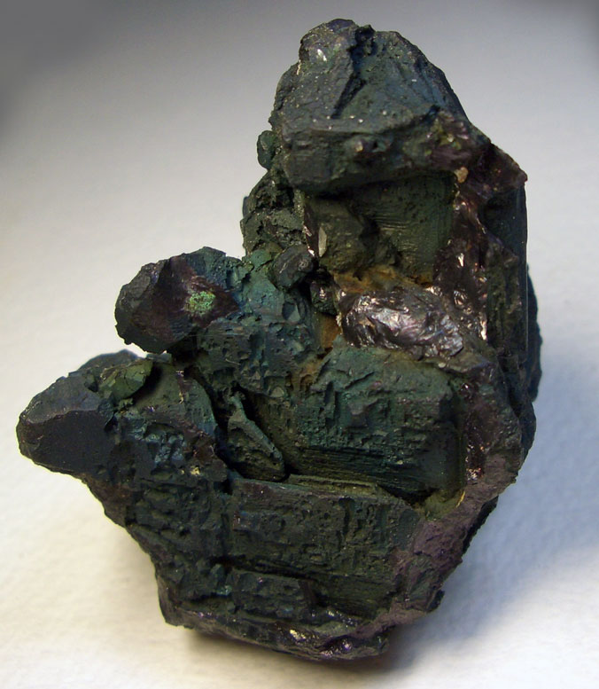 Bornite, 7cm. skeletal cristal. Kazachstan, Dzeskazegan mine.